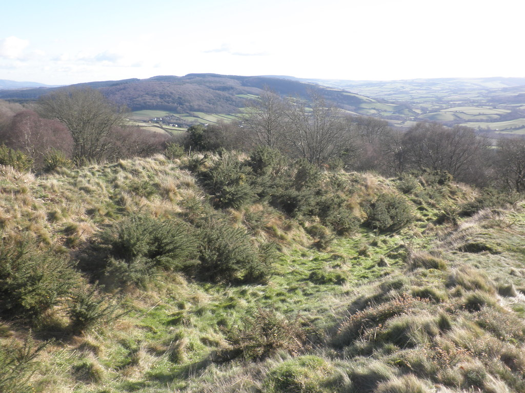 Site of Bury Castle, Iron Age Fort